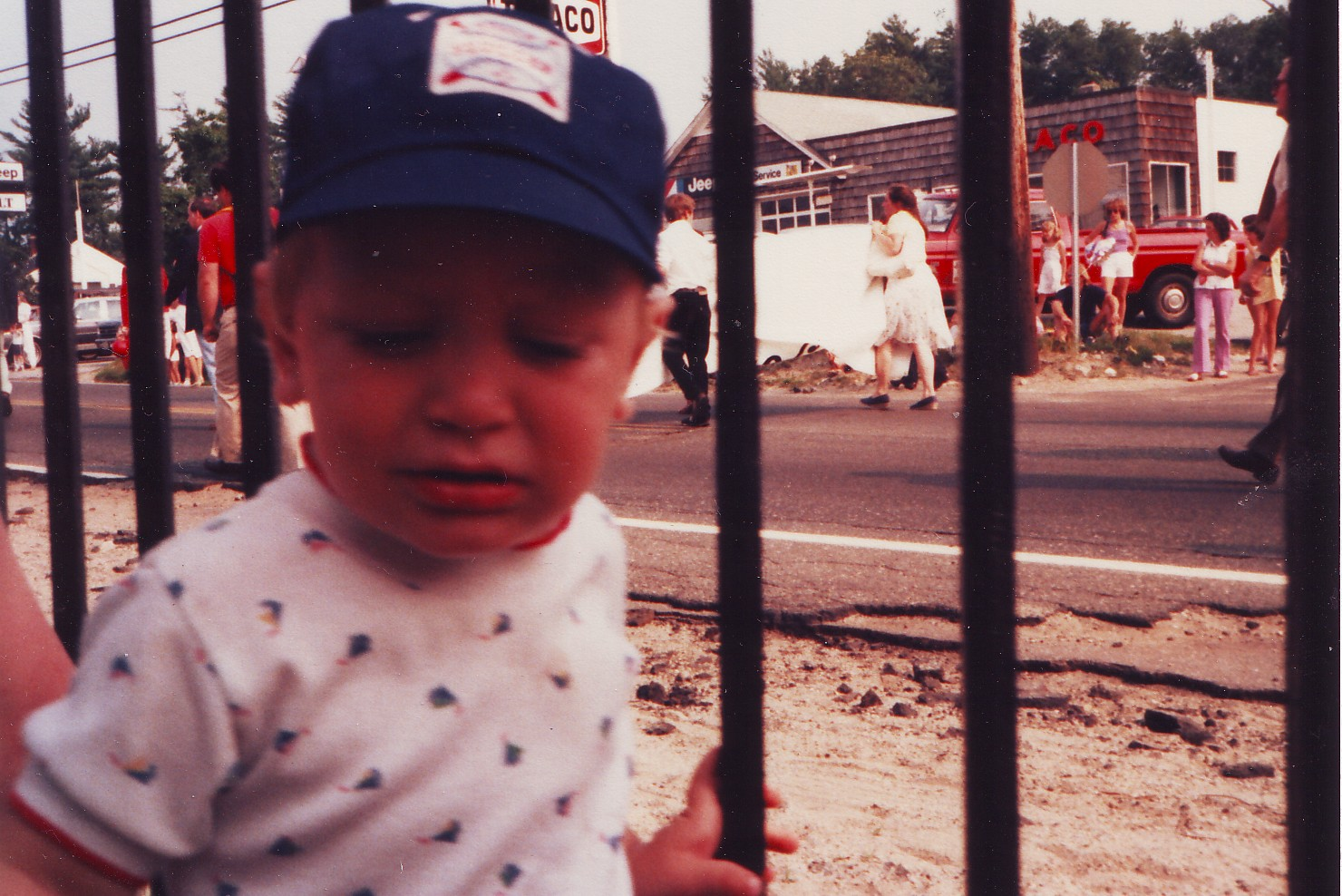 This is my 1984 photo of the Ancient and Horribles Parade in Rhode Island.